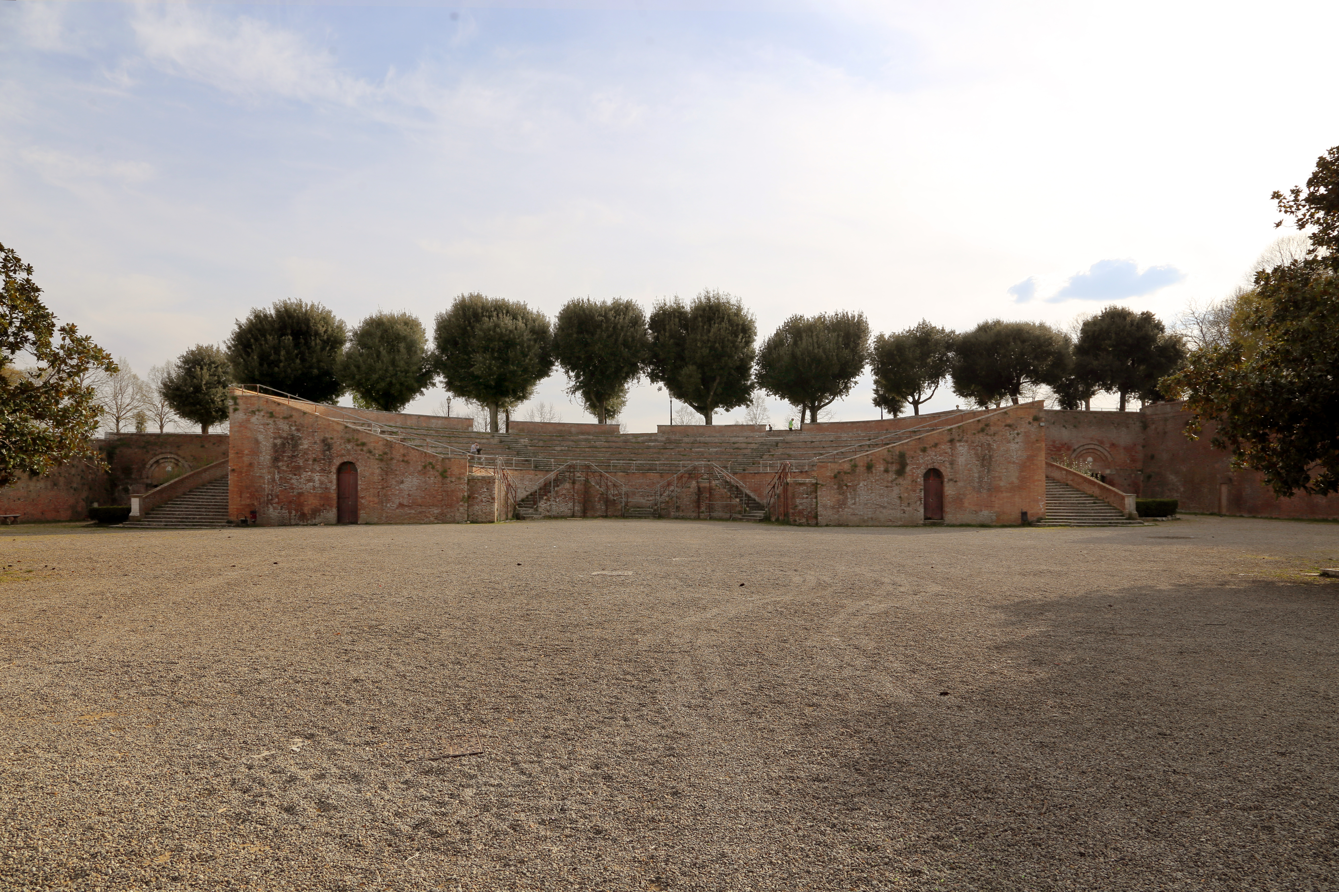 Fortezza Medicea (Siena)